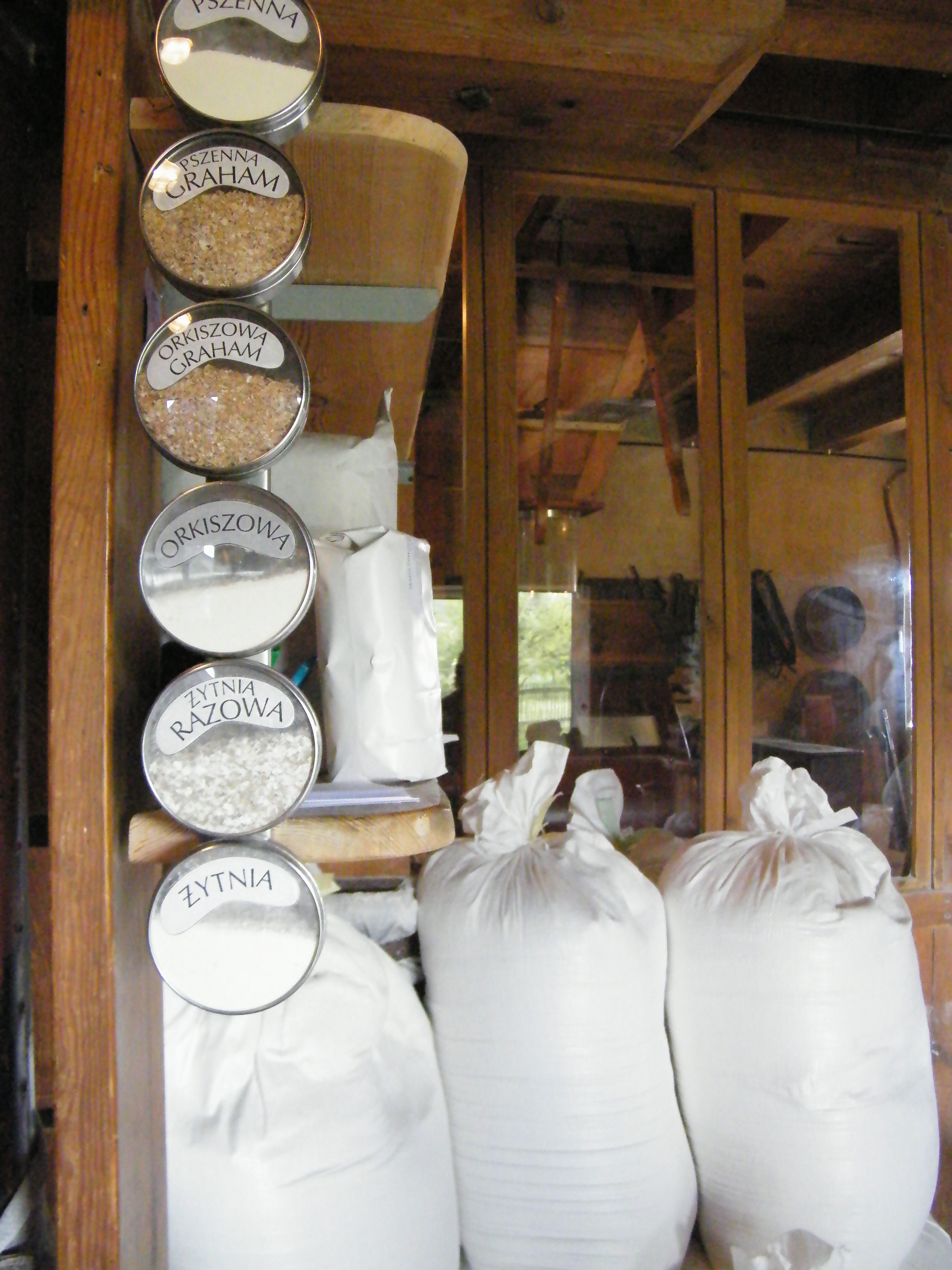 Samples of various types of wheat and rye flour in an old mill in Uszyce near Gorzów Śląski, Poland